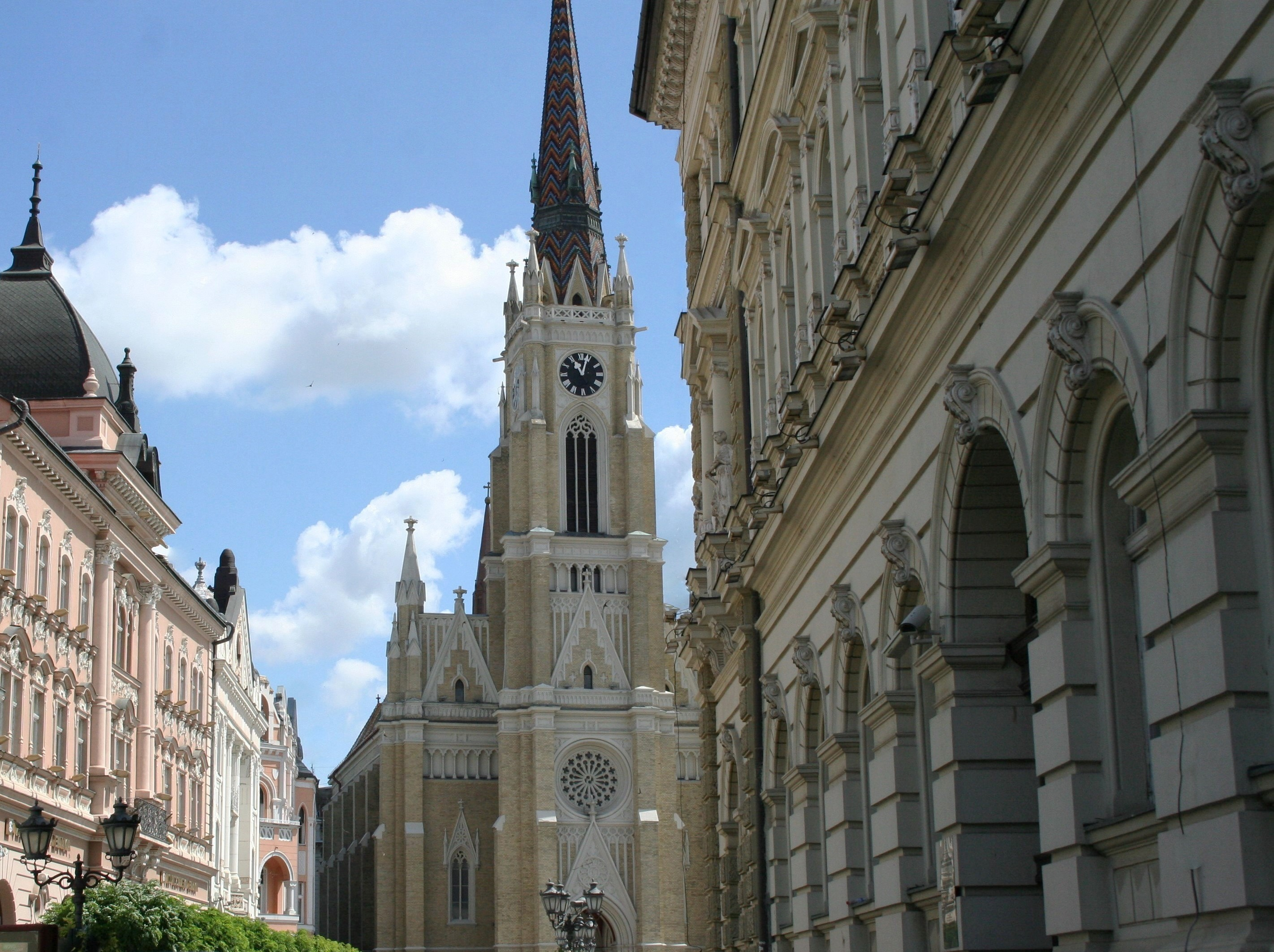 "Trg Slobode" in Novi Sad, the main square of the city.